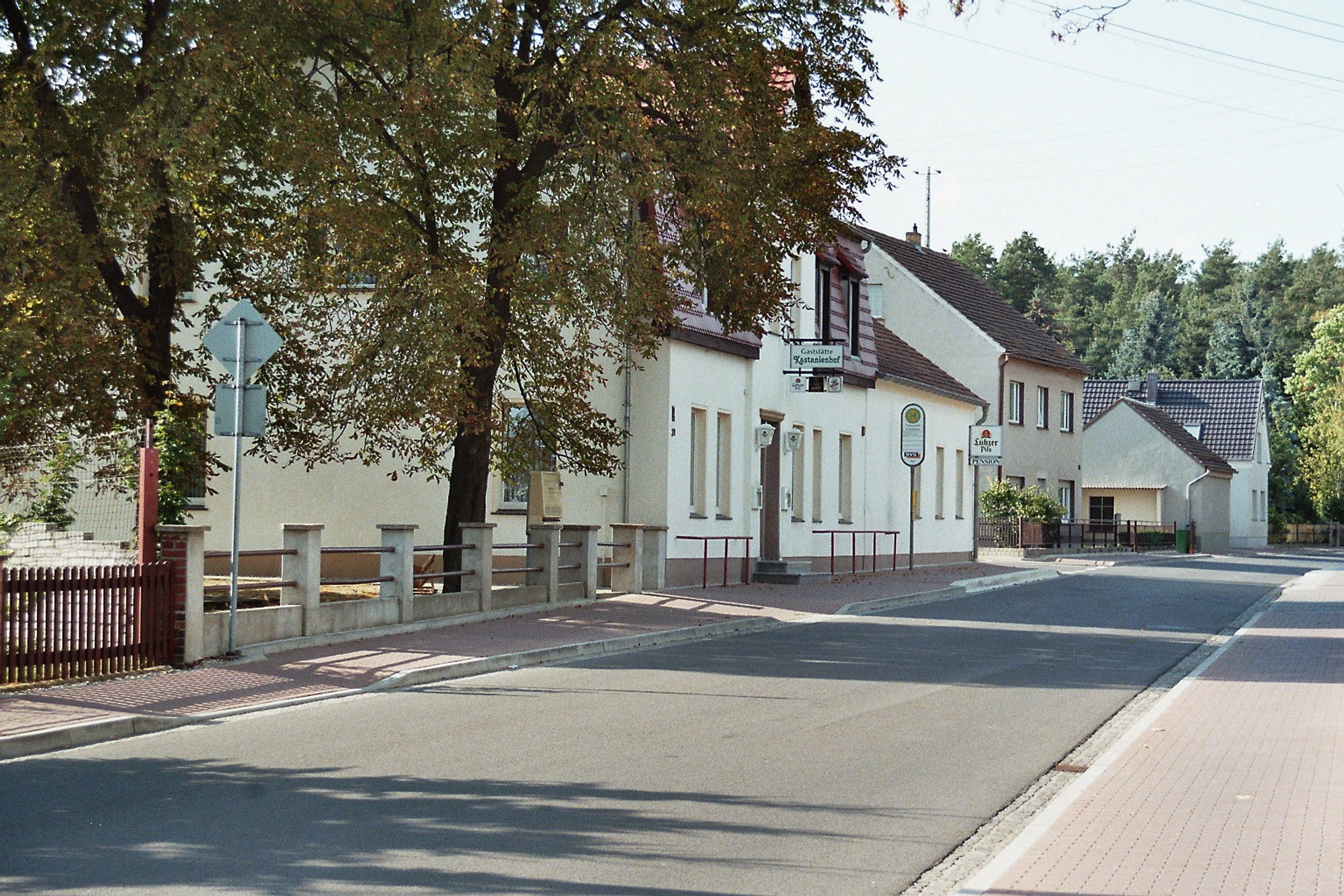 Trebendorf, restaurant "Kastanienhof"